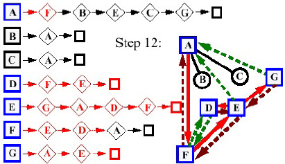 Dry run Depth-first search Algorithm in Graph, step 12